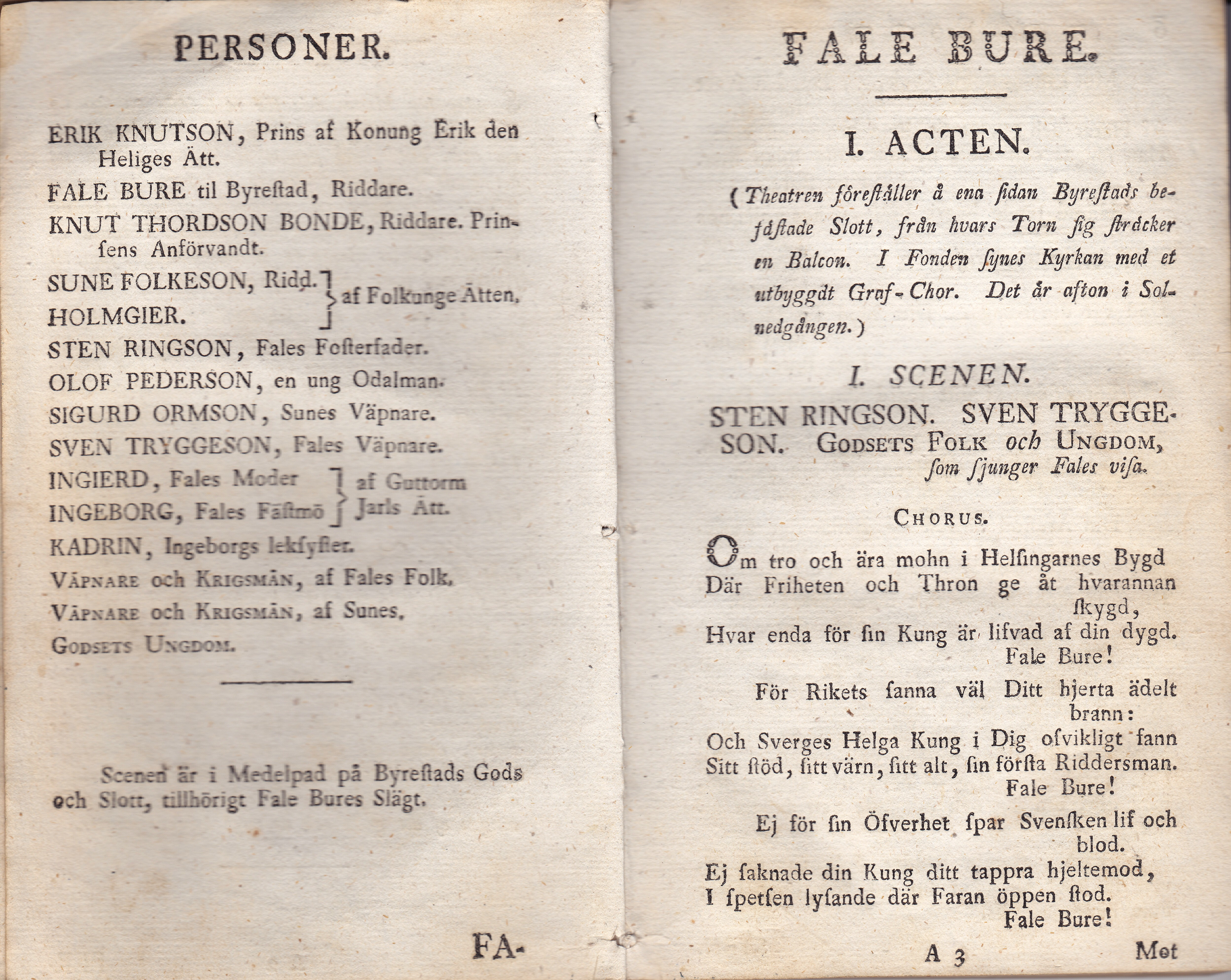 The first pages of the theatrical drama "Fale Bure", written by the Swedish count Jacob de la Gardie and first played in 1795 for the royal family.